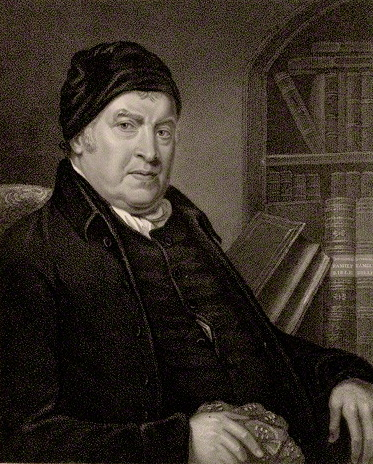 John Fawcett (theologian) (1740-1817)